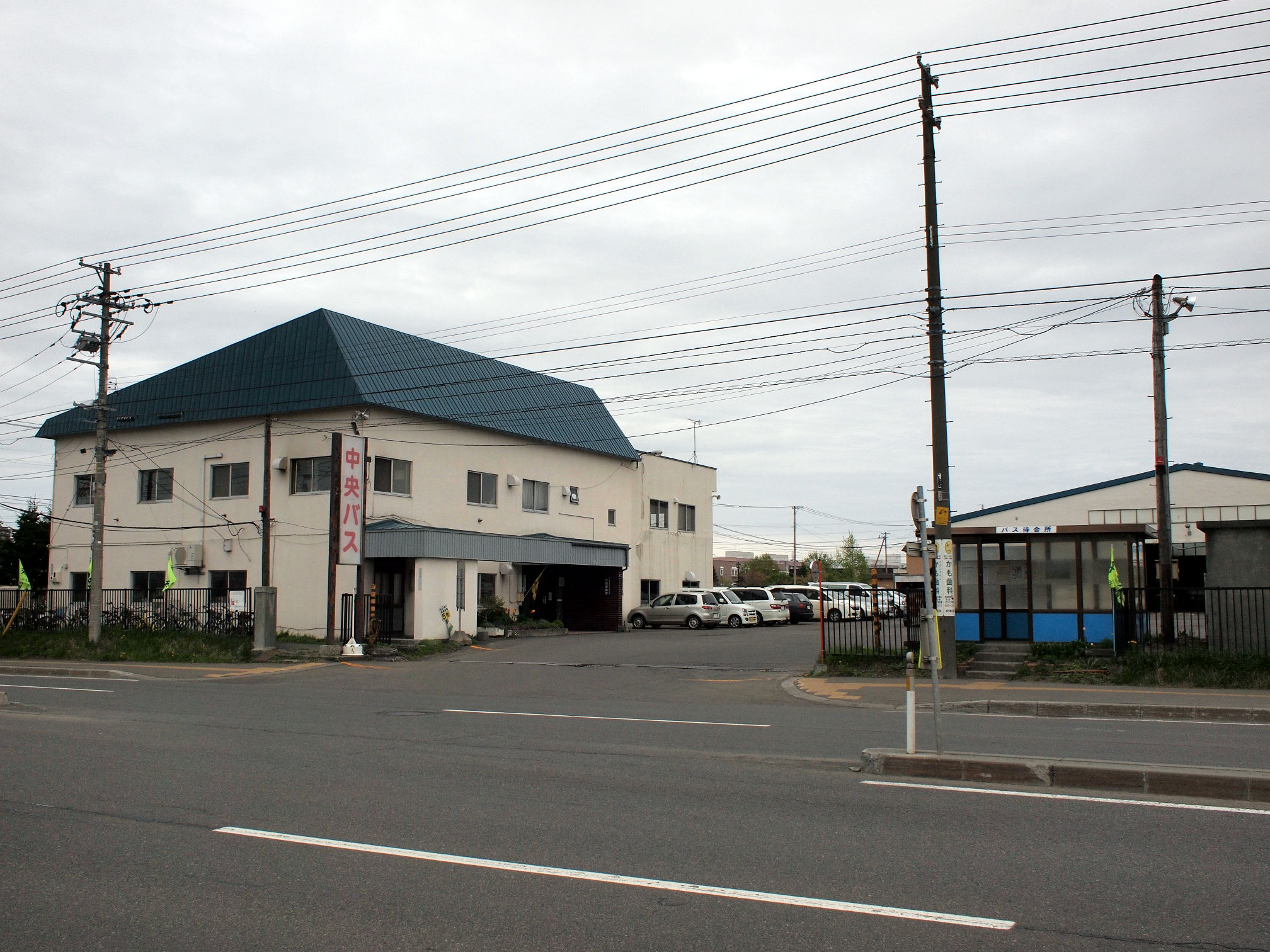 Hokkaido Chuo Bus Hiraoka Office, Sapporo, Hokkaido, Japan